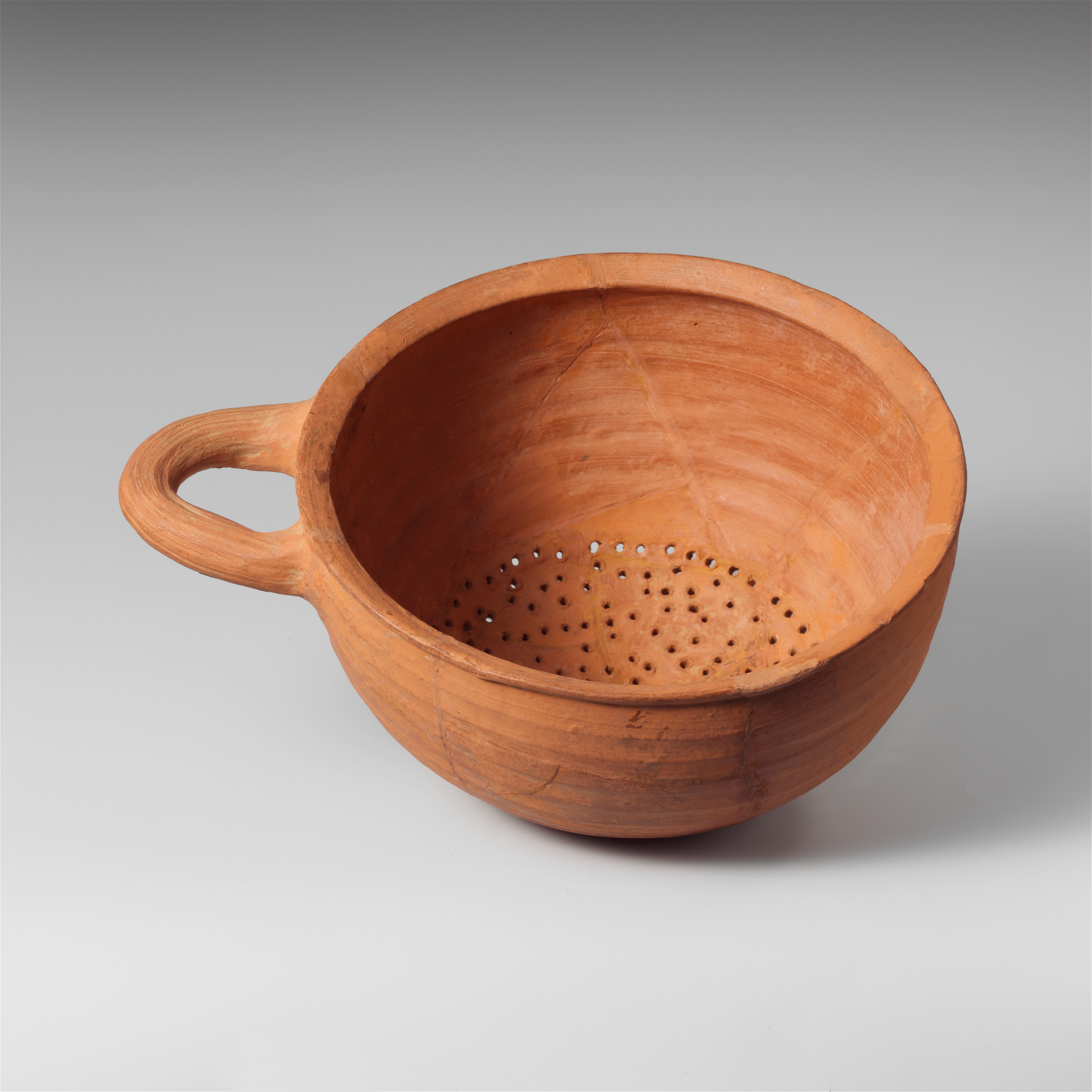 Lydian; Strainer; Vases